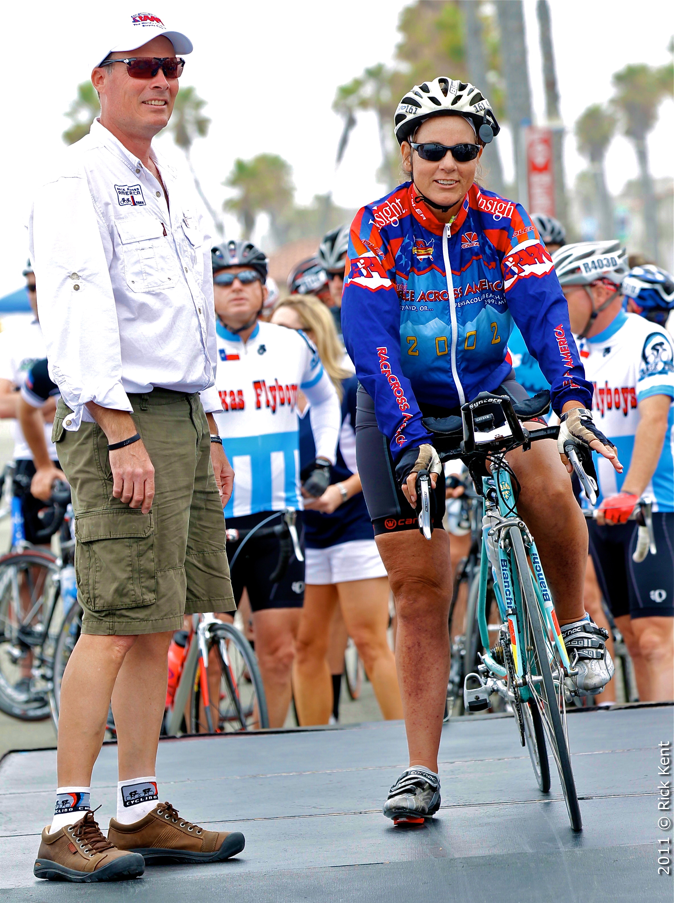 Seana Hogan being honored at the 30th anniversary celebration of the Race Across America. Hogan is the only female to have broken the 9-day barrier and has won six times. To her left is current race director George Thomas, himself a RAAM finisher in almost every category.